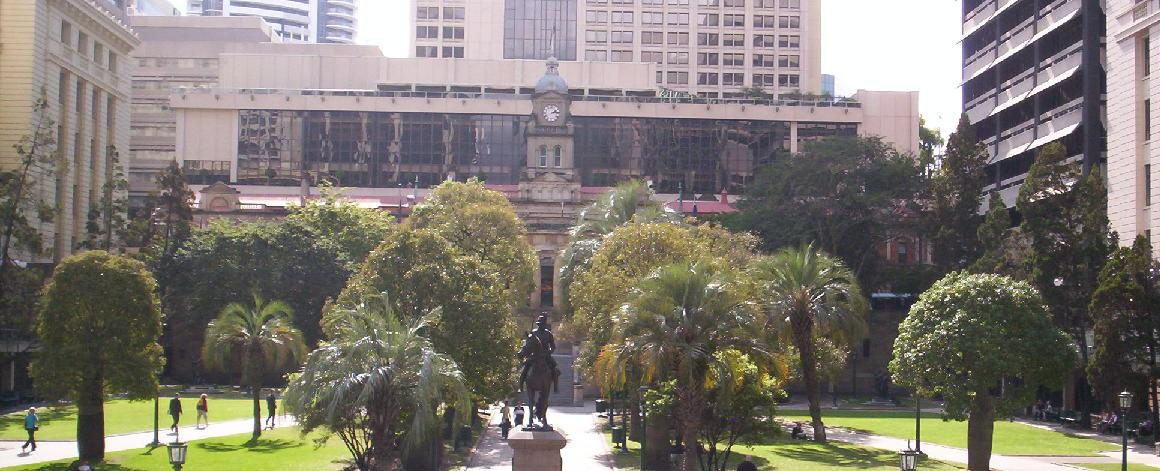 Anzac Square and Central Railway, Brisbane, Queensland, Australia ( this photograph was taken by Figaro )